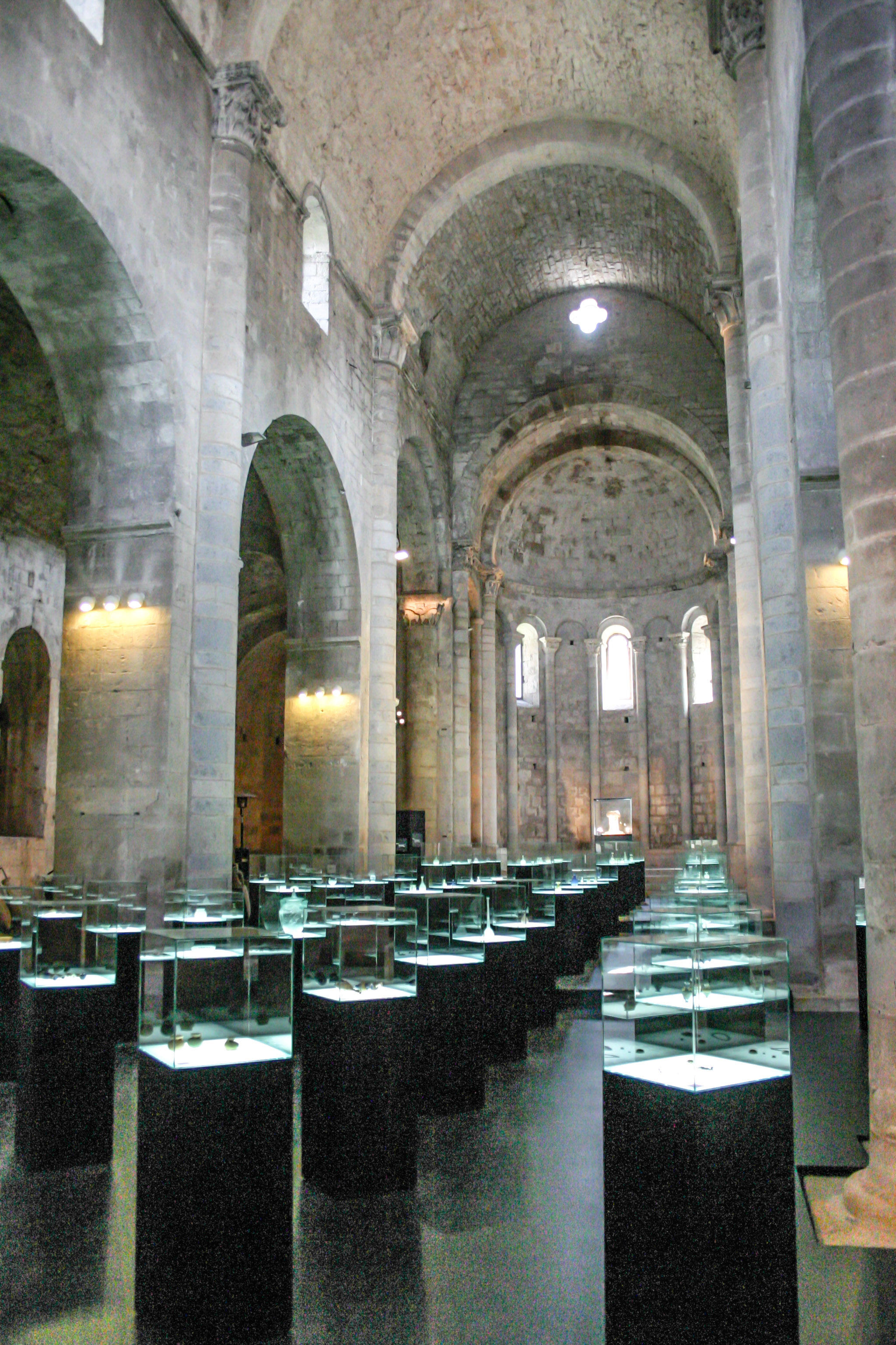 Girona's Arqueology Museum of Catalonia, Catalonia (Spain).